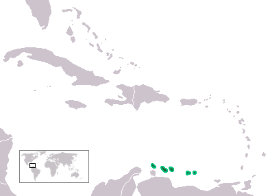 Map: Leeward Antilles (location); adapted by User:Cogito ergo sumo from Image:BlankMap-Caribbean.png/Image:LocationLesserAntilles.png